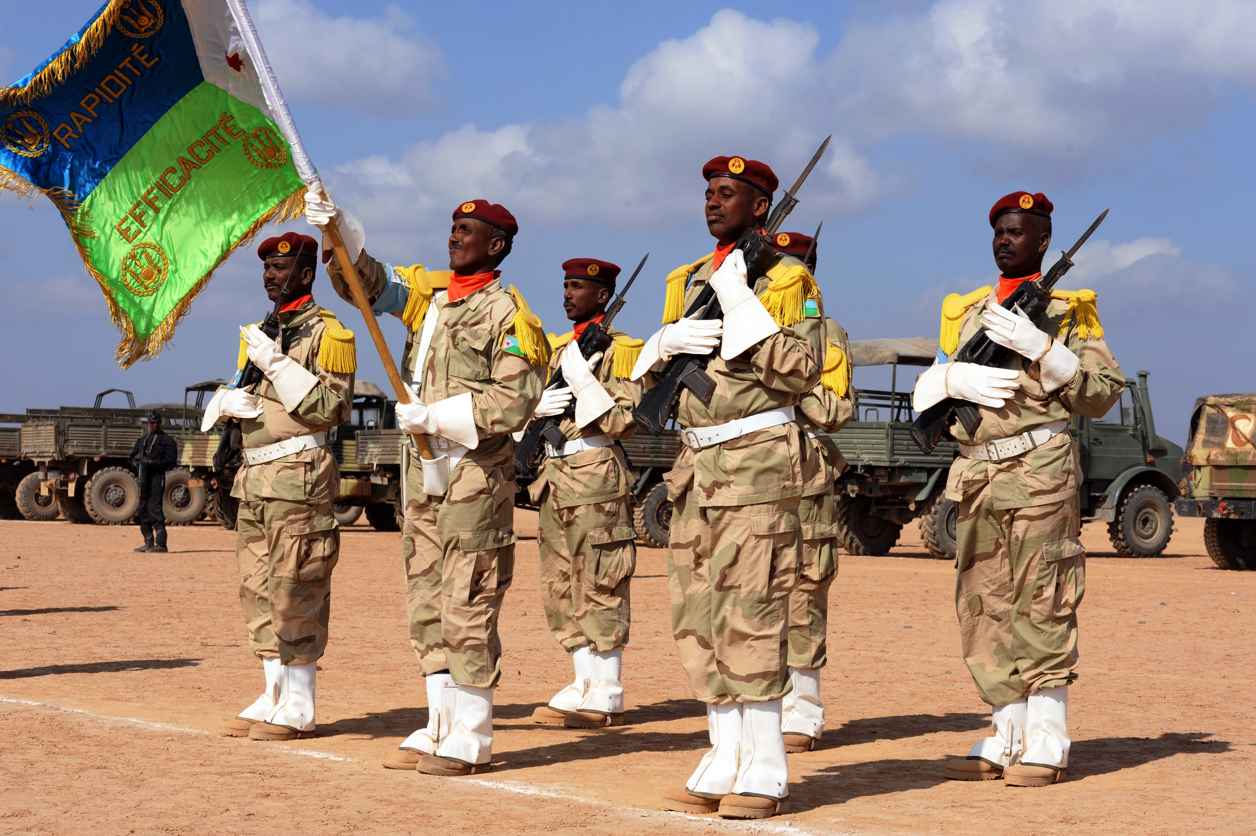 Members of the Djibouti Army stand at attention at the closing ceremonies of the multi-national, Eastern Africa Standby Force Field Training Exercise in Grand Bara, Djibouti, December 4th, 2009.